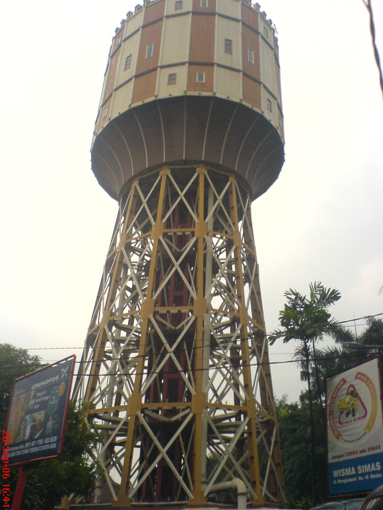 Tirtanadi Tower, Icon of Medan